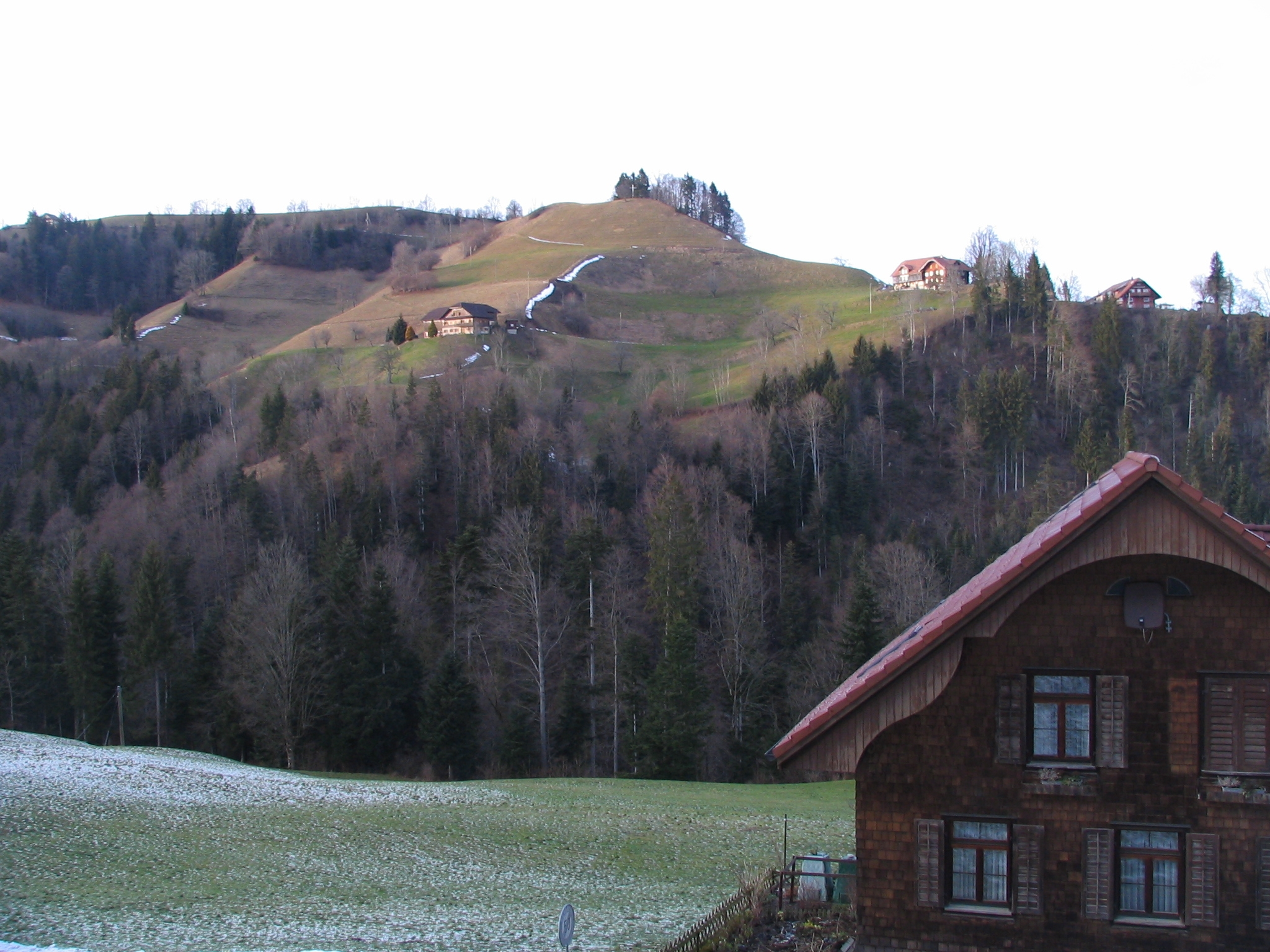 Under Graemse in Romoos (municipality) in the district of Entlebuch in the canton of Lucerne in Switzerland.